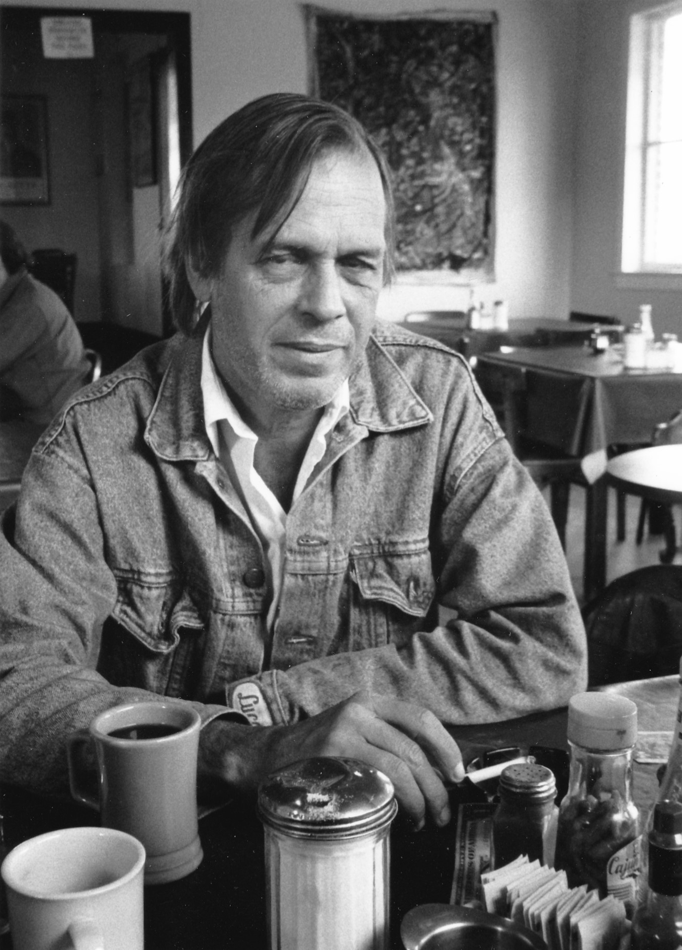 Artist Lucas Johnson, Houston, Texas, 1990s. Photo: Patricia C. Johnson